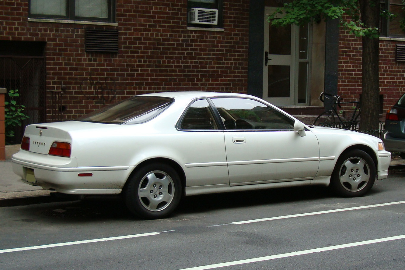 The second generation of Acura Legend Coupe photographed in New York City